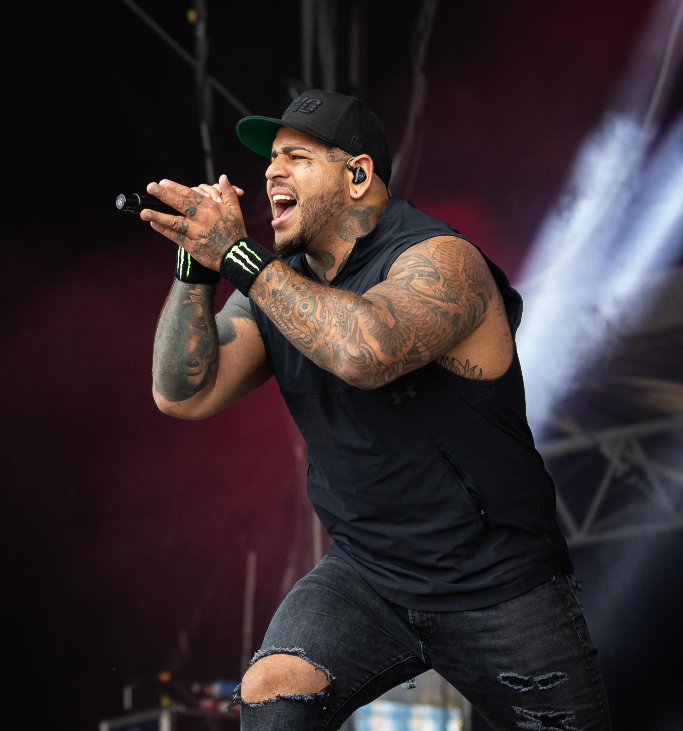 Bad Wolves (Tommy Vext) - Rock am Ring 2019